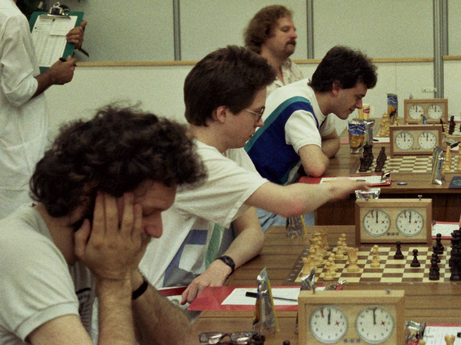 Chess Olympiad 1986 (Jonathan Speelman, Nigel Short, John Nunn, Tony Miles), Photographer Gerhard Hund.